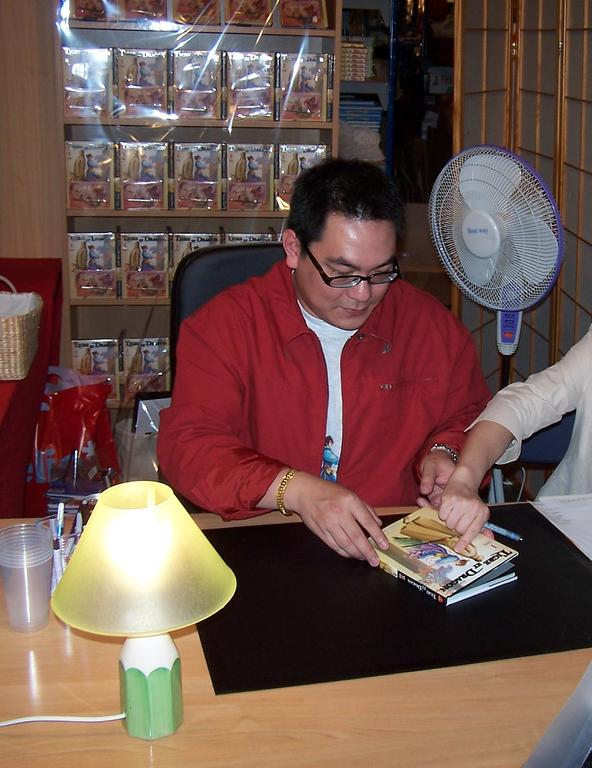 Andy Seto dedicating Crouching Tiger, Hidden Dragon comicbook